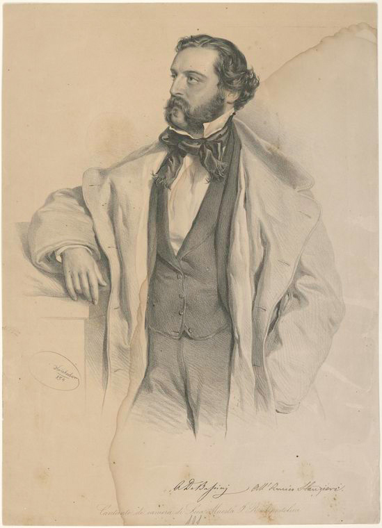 Portrait of Achille De Bassini (1819-1891)